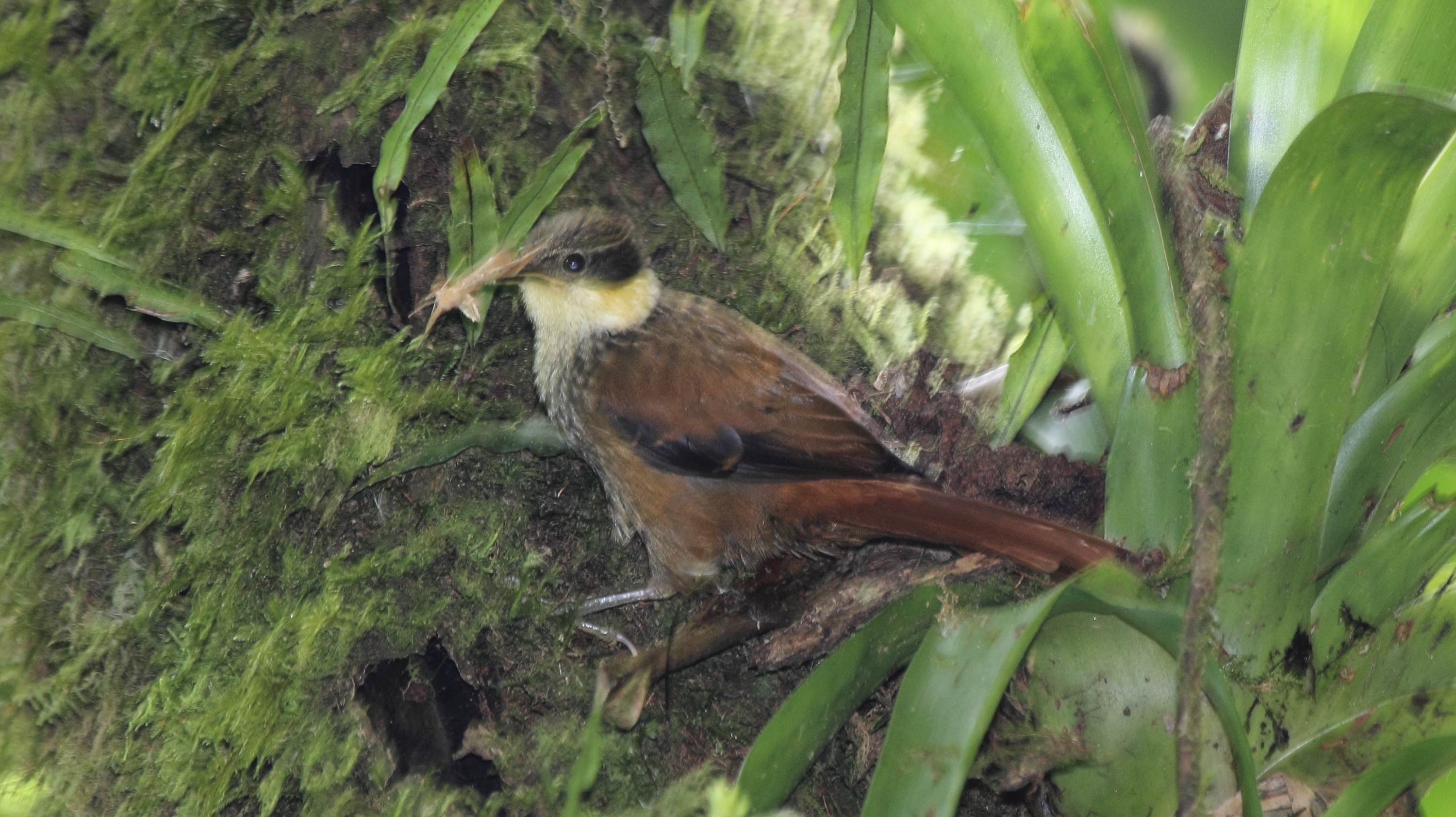 Photographed at Savegre, in Costa Rica.